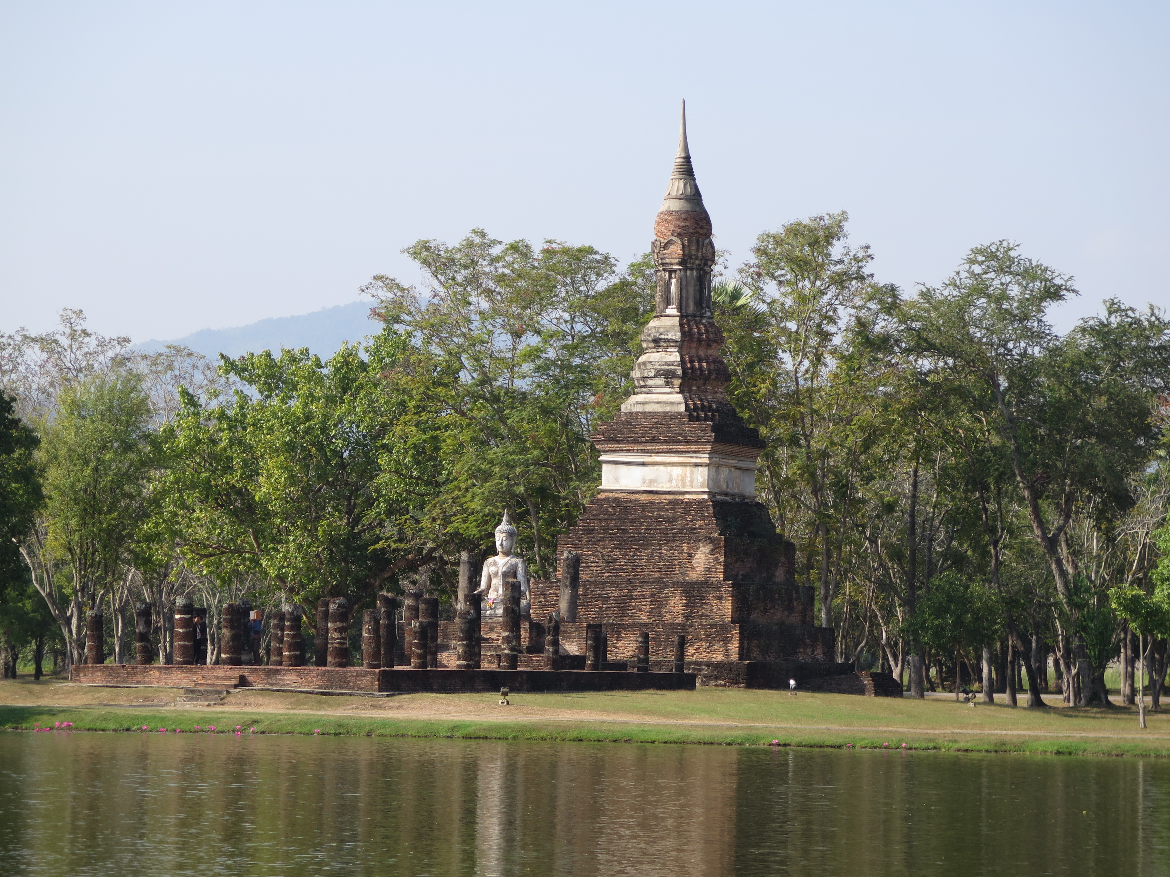 Wat Traphang Ngoen. Sukhothai Historical Park. Sukhothai, Thailand.